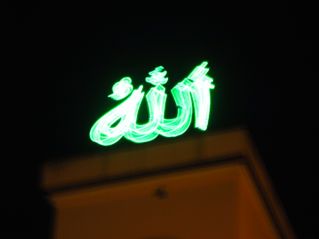 Nice Lighting works at the top of the Hazrat Shahjalal Mazar Mosque.